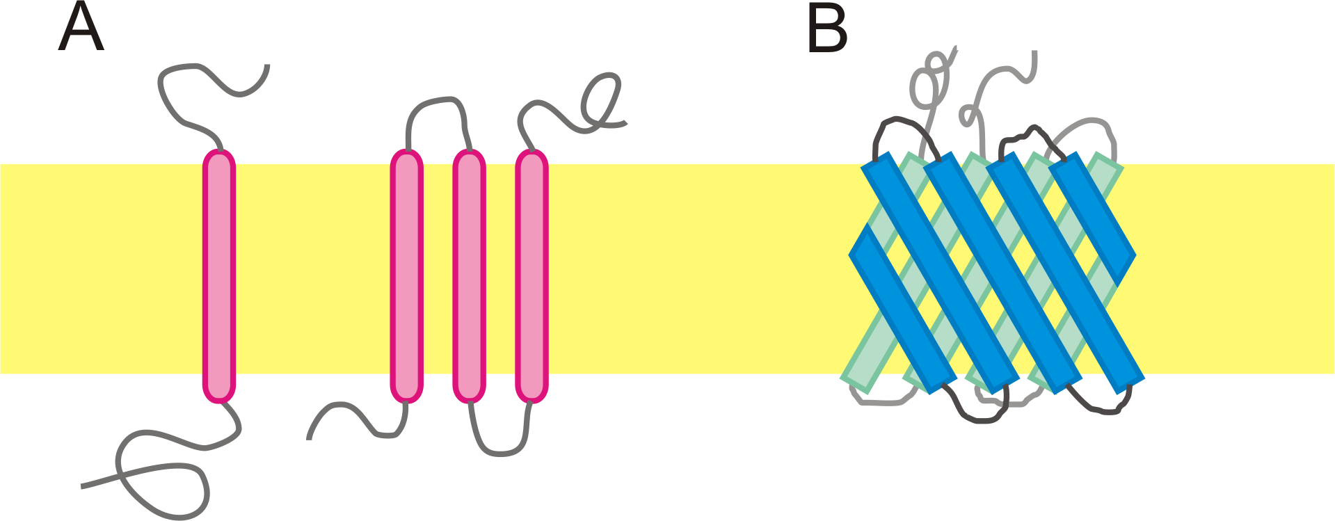 Schematic representation of integral membrane proteins. Similar to Image:Polytopic membrane protein.png, but without english annotations